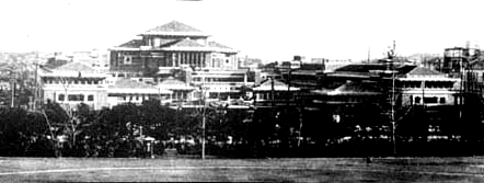 Imperial Hotel by Frank Lloyd Wright